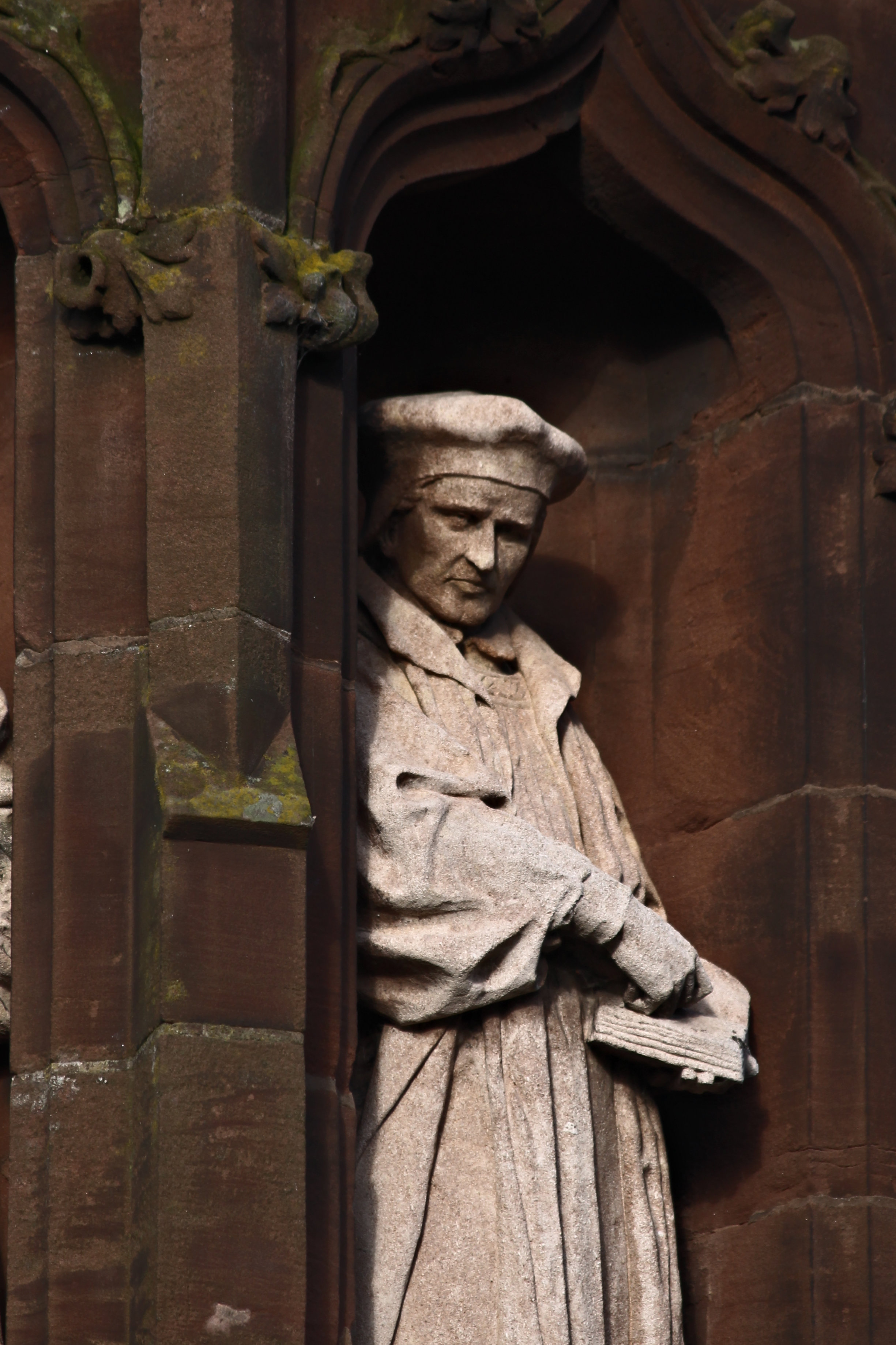 Sculpture of Richard Parry (1560–1623), Bishop of St Asaph and Headteacher at Ruthin School. Co-translator of the Bible to the Welsh language. The sculpture is on the monument to Welsh Translators at Llanelwy / St Asaph, Wales.